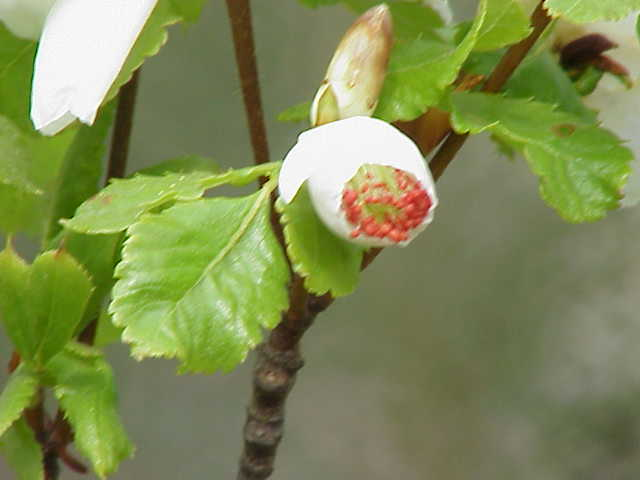 Species: Eucryphia glutinosa Family: Eucryphiaceae Image No. 1